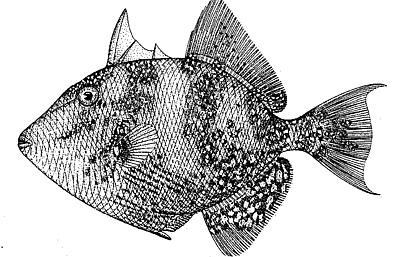 Triggerfish (Balistes capriscus)